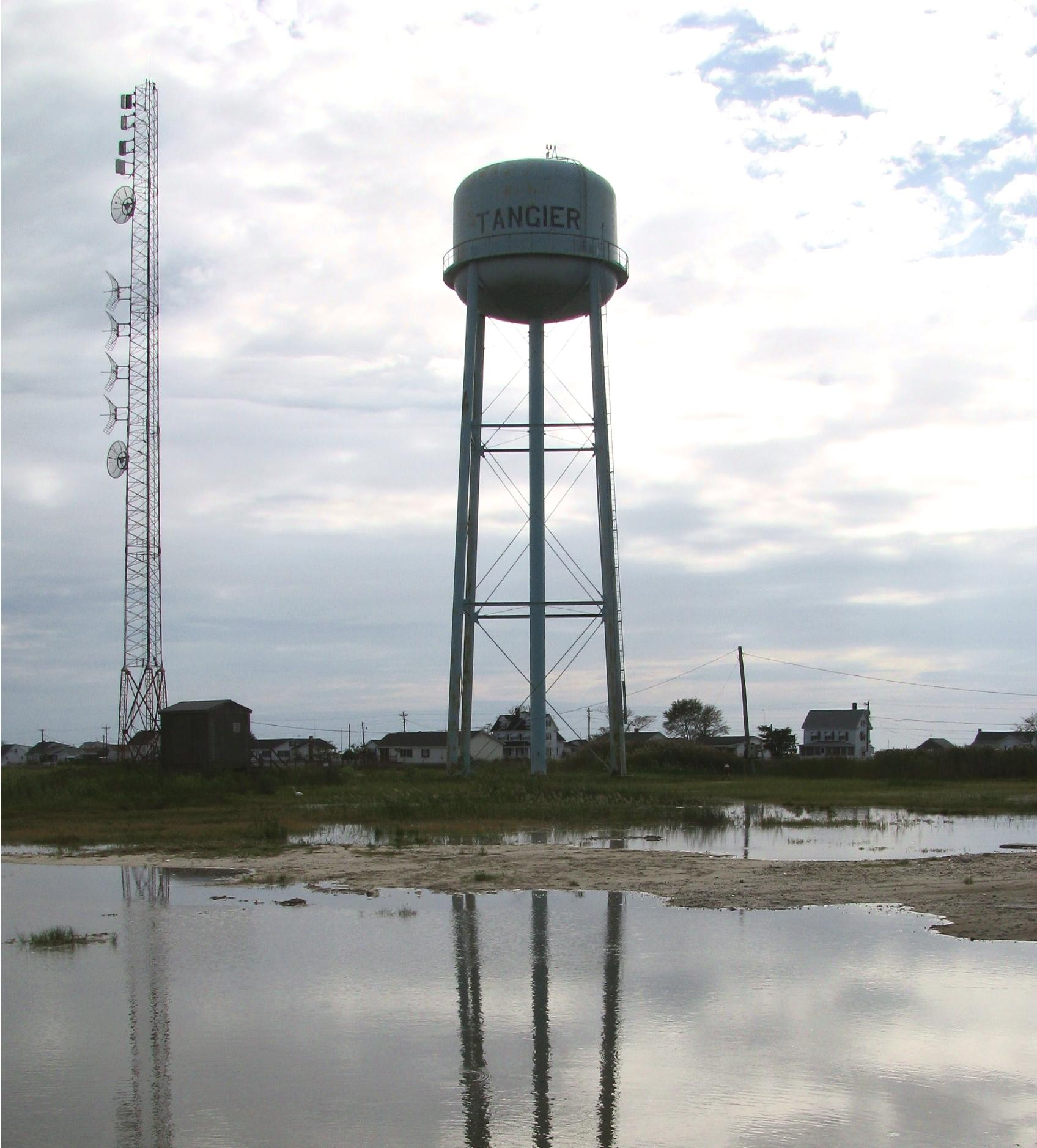 Water Above, Water Below. The microwave tower has brought cable TV and the Internet to the Island.